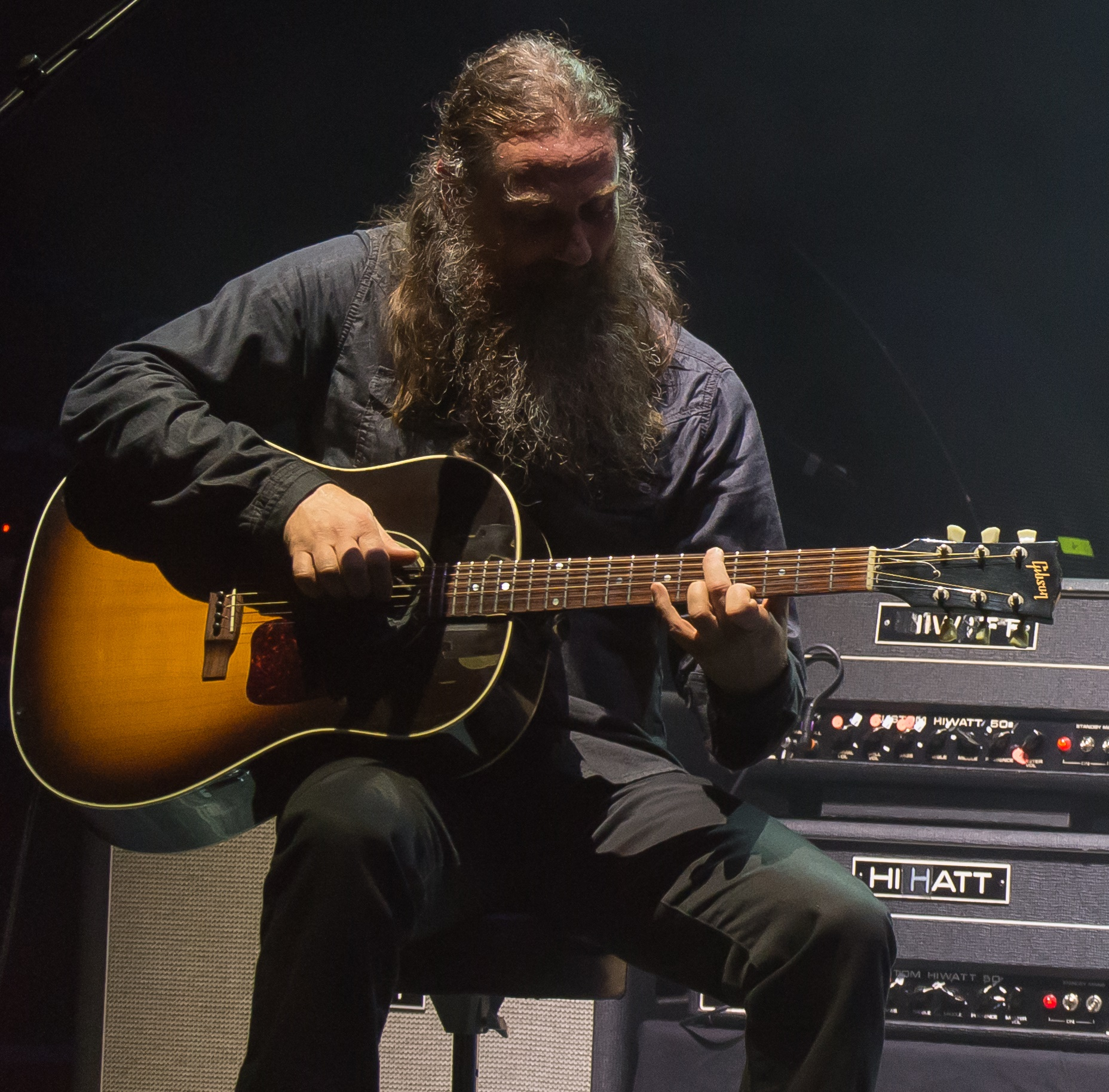 Laim Tyson on stage with ROBERT PLANT AND THE SENSATIONAL SPACE SHIFTERS - Cambridge Corn Exchange, England 20 Nov 2014